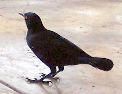 Greater Antillean Grackle, possibly in Puerto Rico